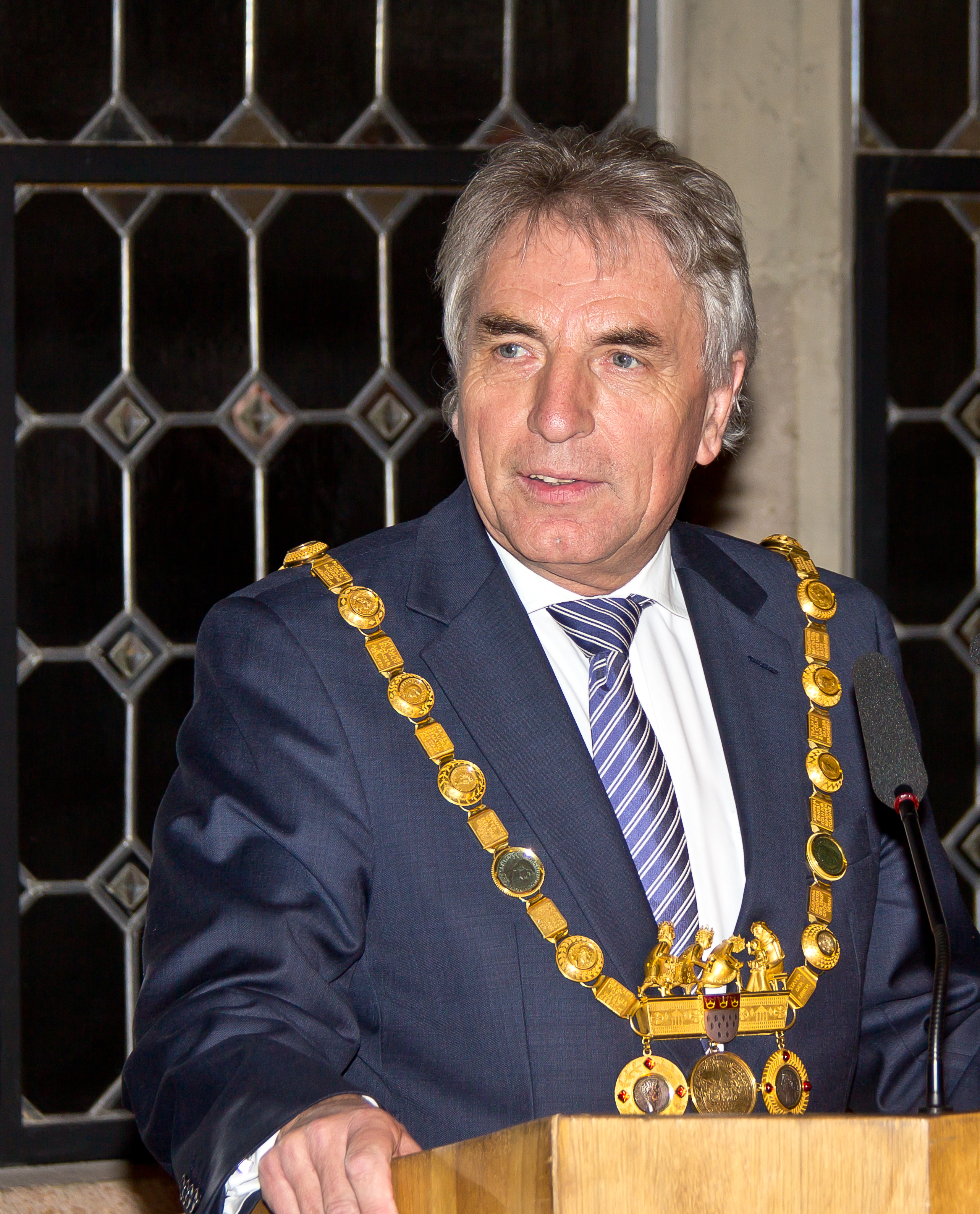 Welcome of the President of the European Parliament, Martin Schulz, by the Lord Mayor of Cologne, Jürgen Roters, in the townhall of Cologne, Germany. Photo: Address of welcome by Lord Mayor Jürgen Roters